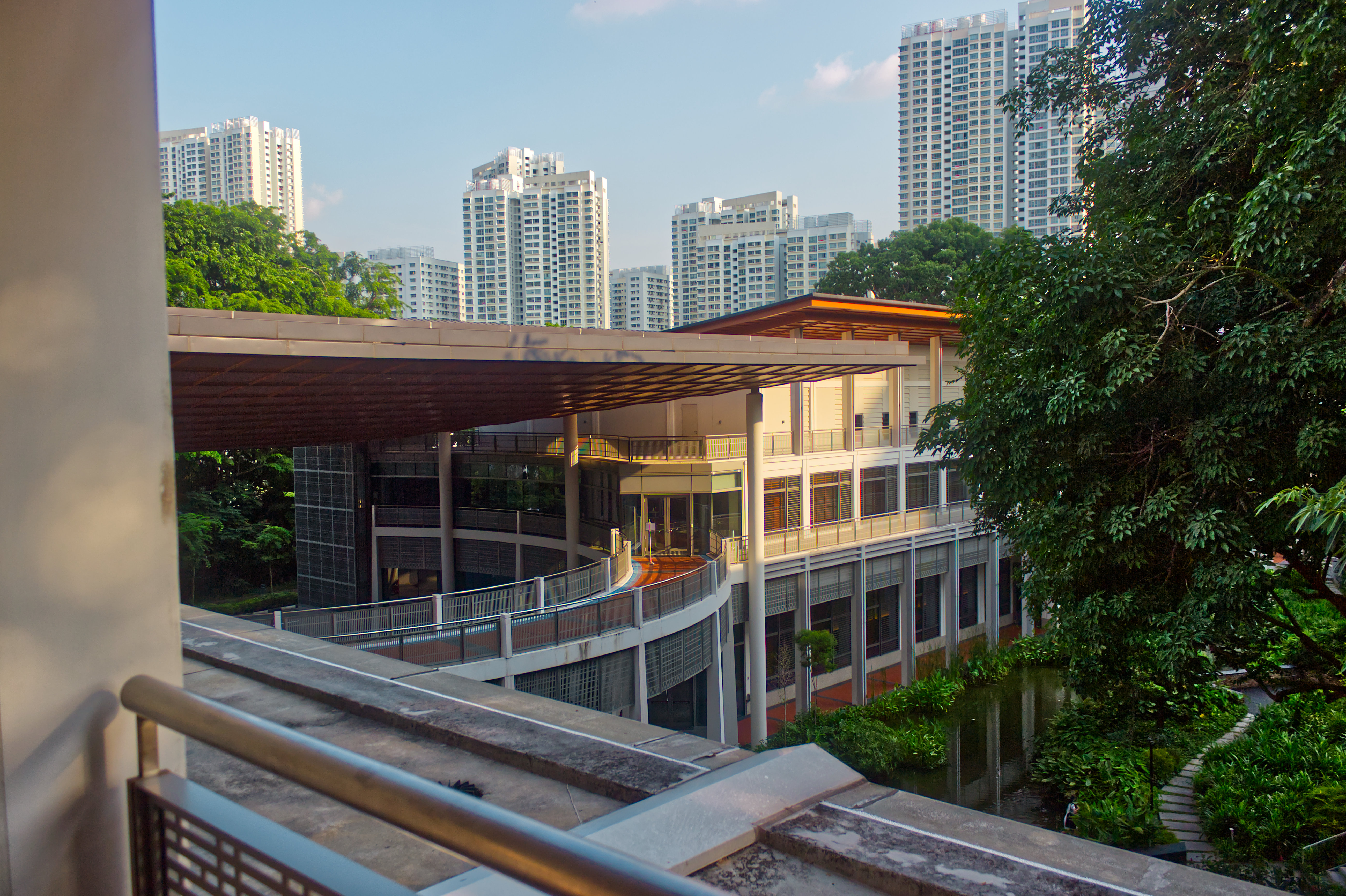 A view of the West Core of Yale-NUS College, including the Oculus rain roof and the linkbridge between the Performance Hall Gallery and the Centre for International and Professional Experience. Yale-NUS is a liberal arts college founded by the Yale University and the National University of Singapore.